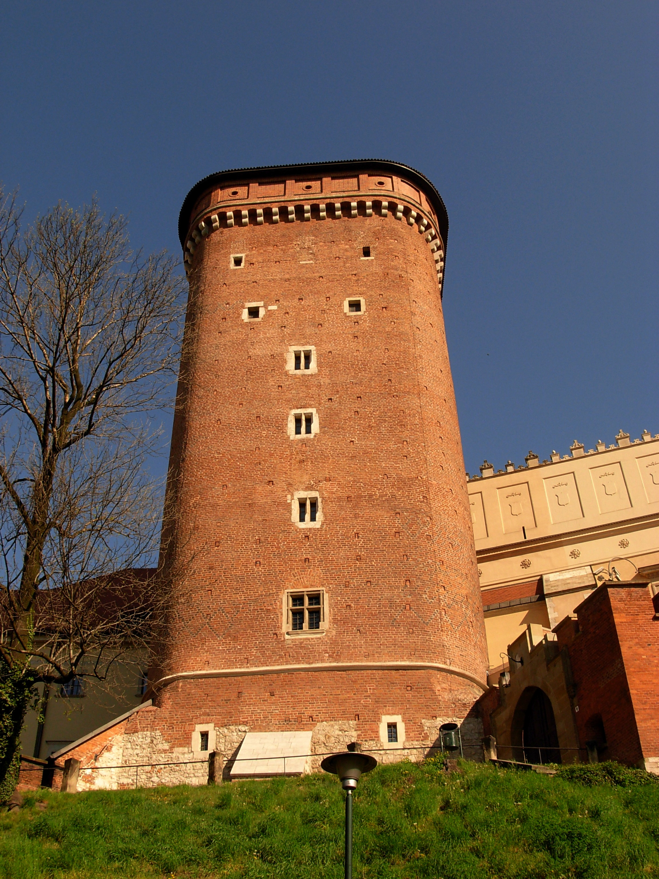 Wawel, Krakow